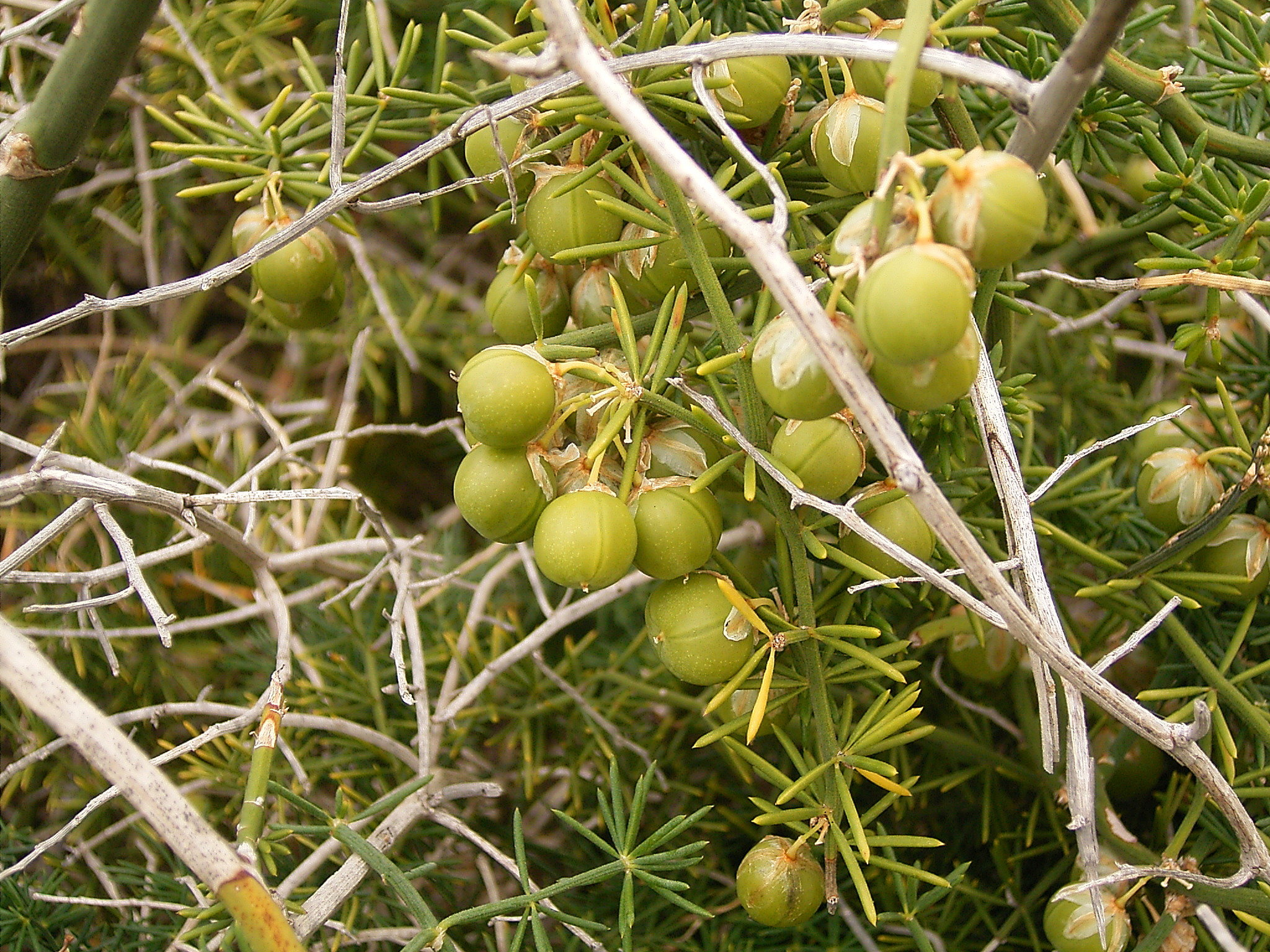 Asparagus umbellatus growing in La Fajana, Barlovento, La Palma, Canary Islands